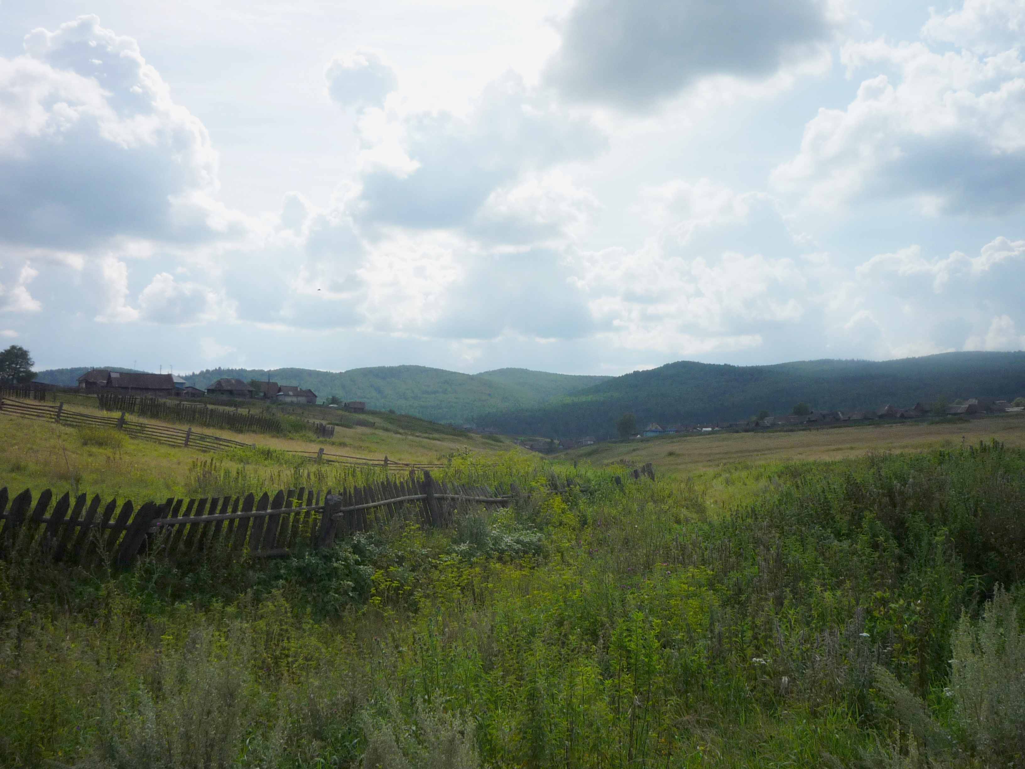 Outskirts of Serpievka village. Cleyabinsk region, Russia.